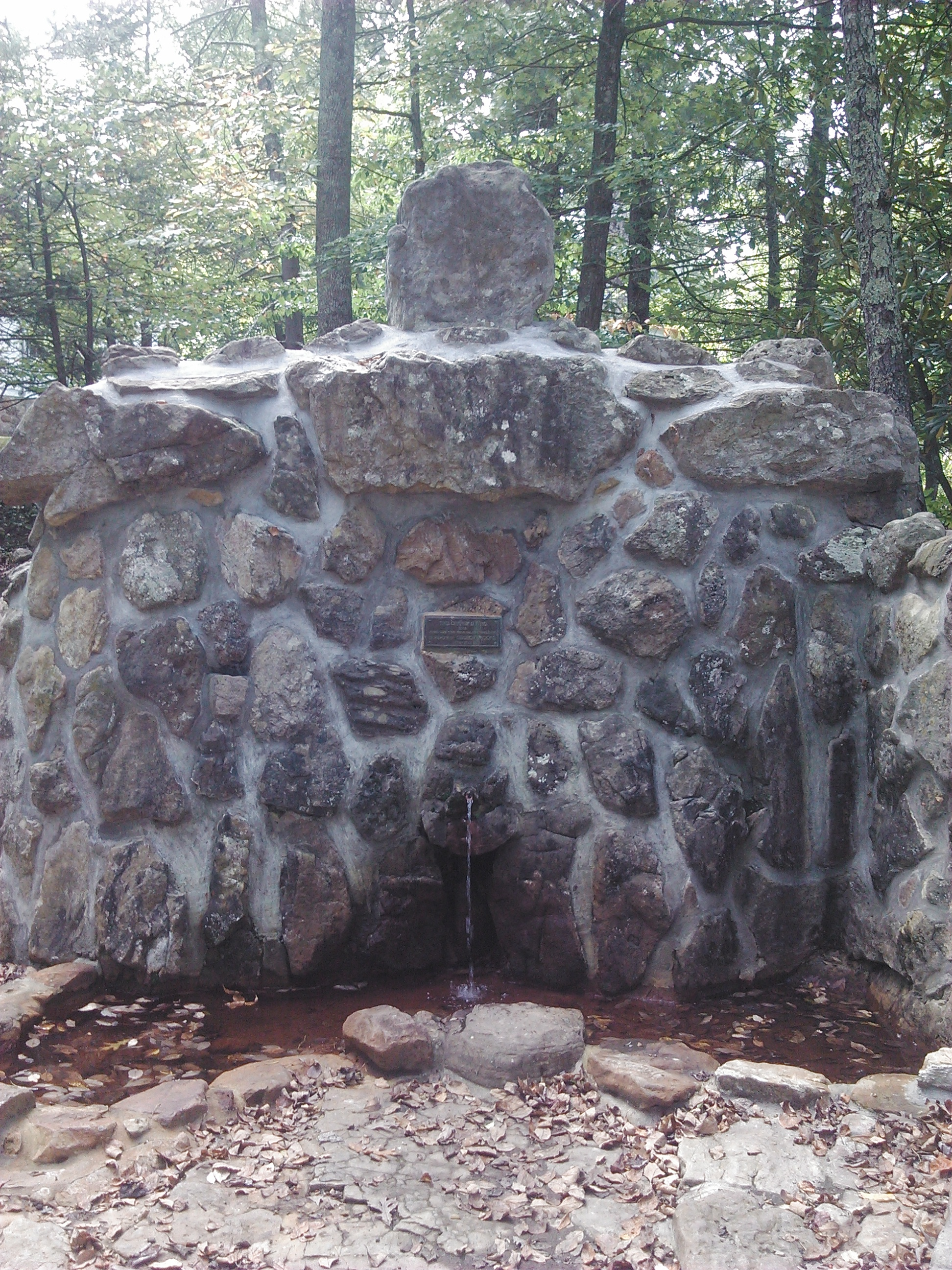 The town's namesake